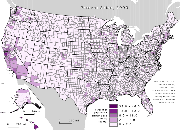 Diagram indicating Asian American settlement in the United States. Image as based on the census 2000 by the U.S. Census Bureau. Badagnani (talk) 08:39, 23 May 2009 (UTC)